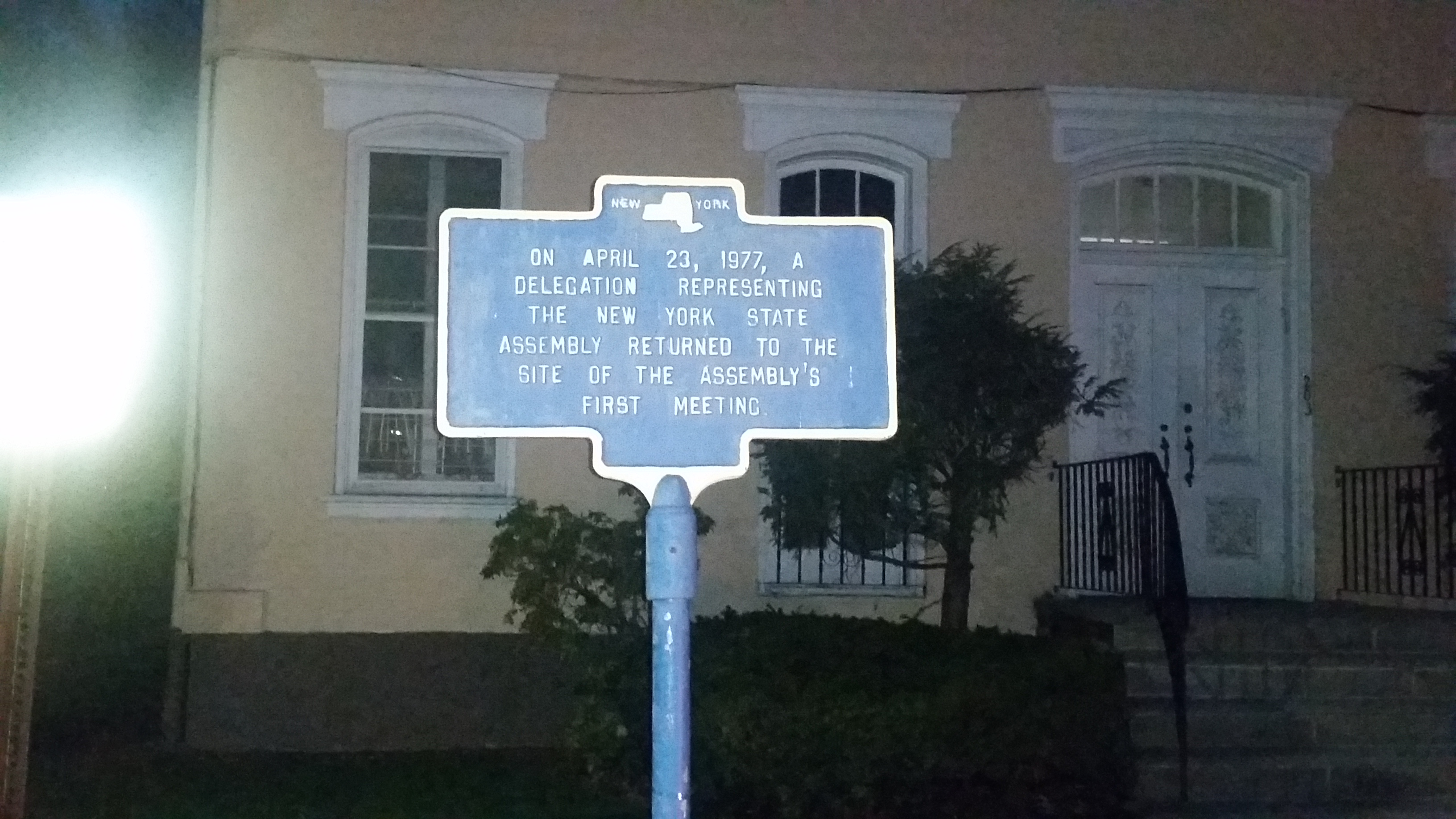 A little before the of 200th anniversary of their first meeting on this spot, some of the NY State Assembly members returned to the site of the tavern where that body first met, demonstrating 1) they can't even get a historical date right, 2) they can't all agree on anything but 3) given the chance to go to a tavern will hop in their cars and go.